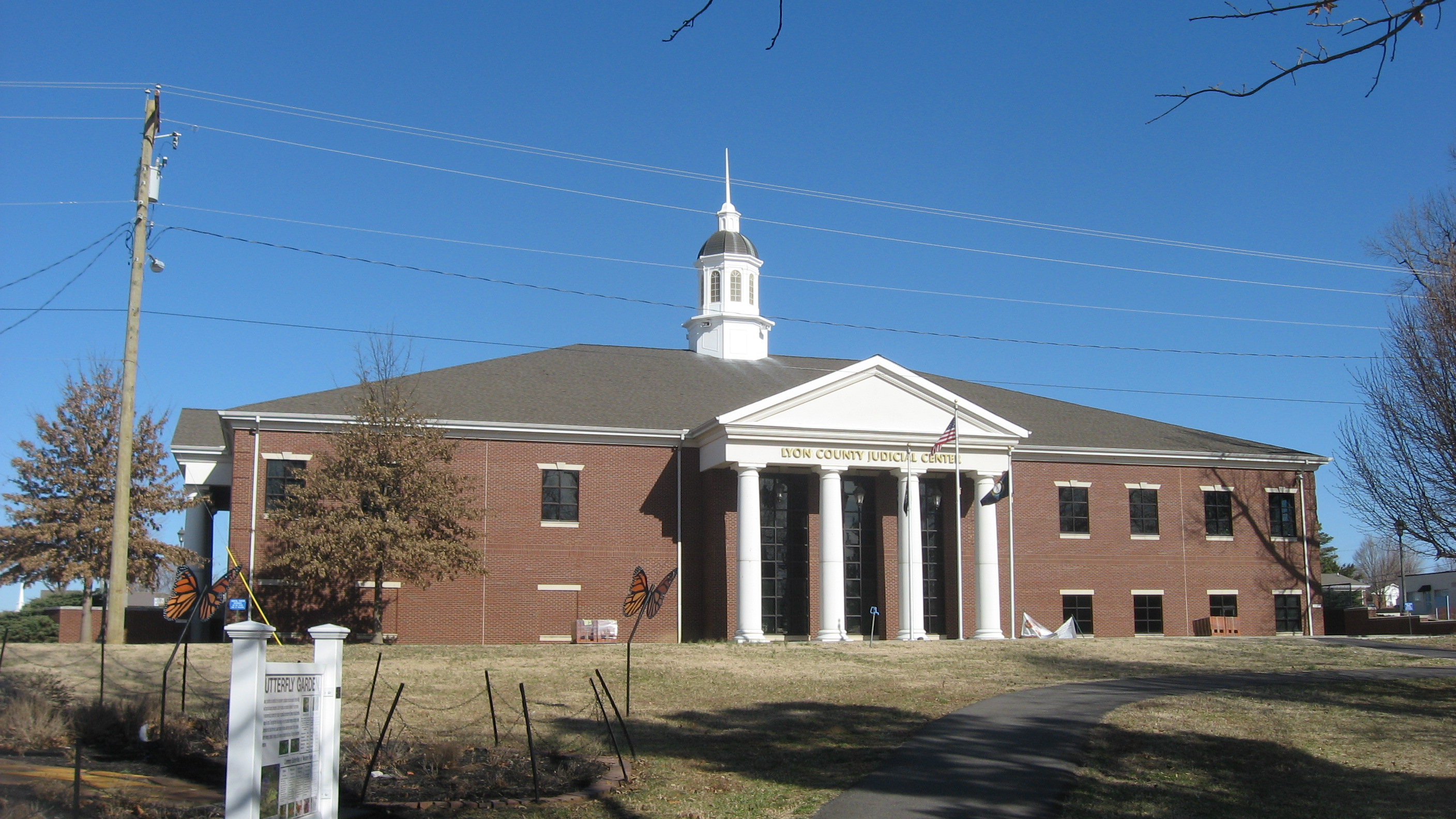 Southern front of the Lyon County Courthouse, located at 500 W. Dale Avenue in Eddyville, Kentucky, United States. It was built in 2000.